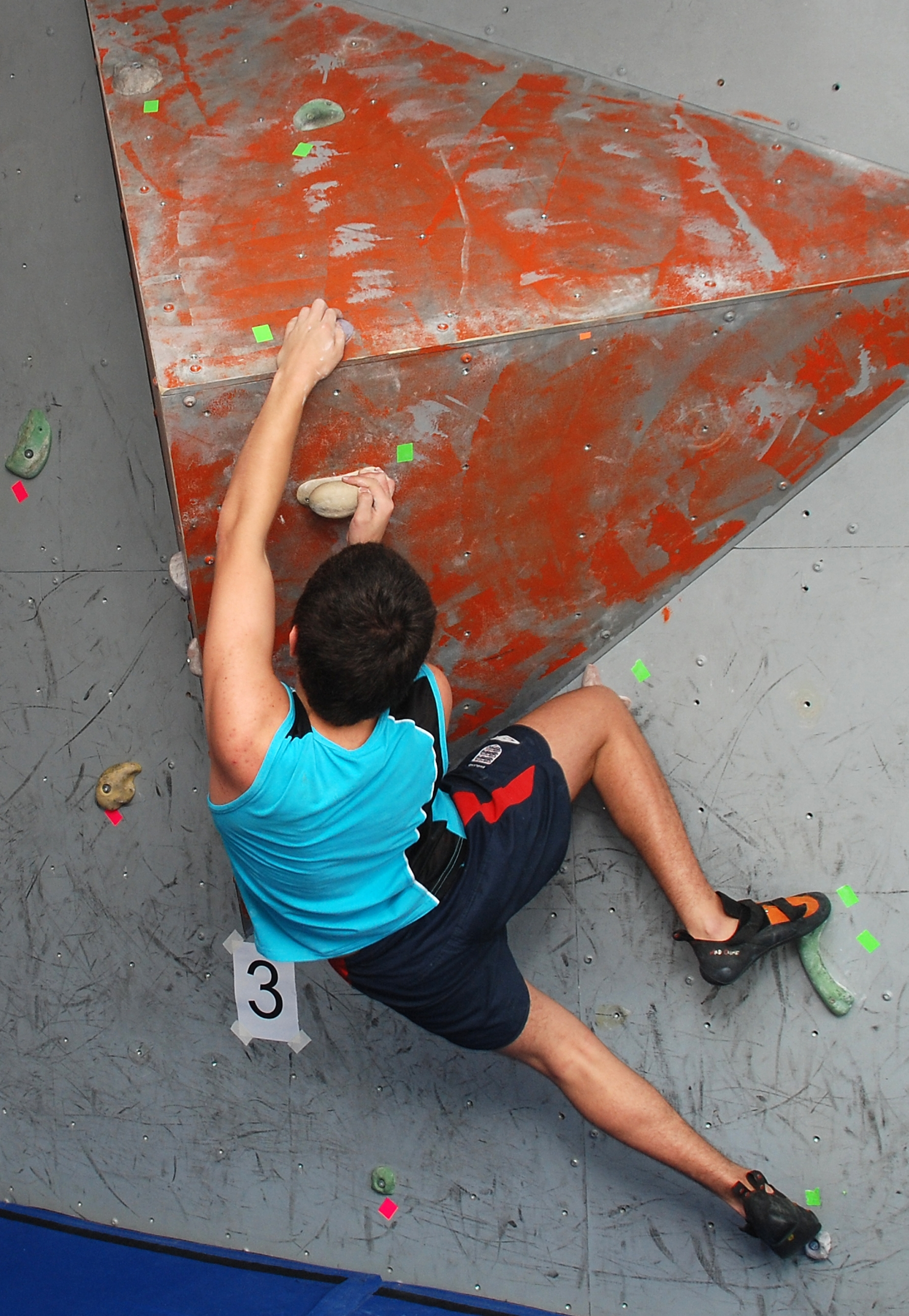 На фото: Ян Пшедзял